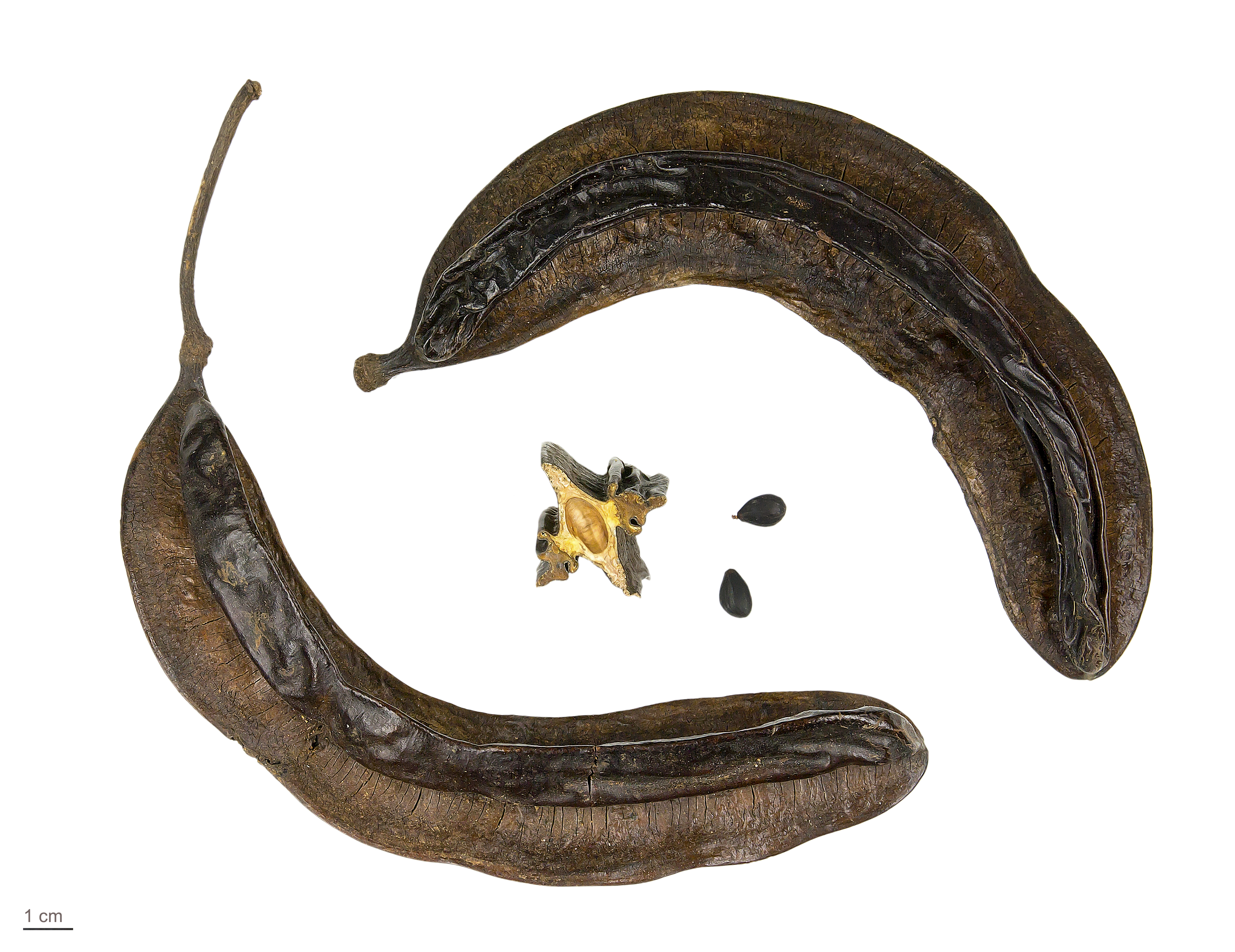 Tetrapleura tetraptera, Aidon tree, seeds